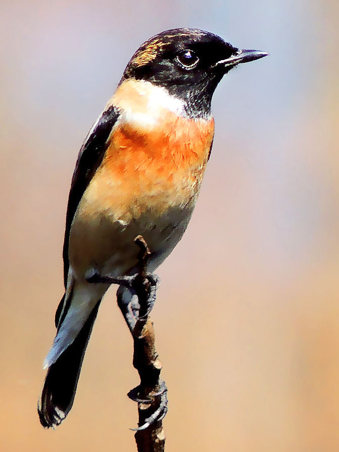 Siberian Stonechat (Saxicola maurus)